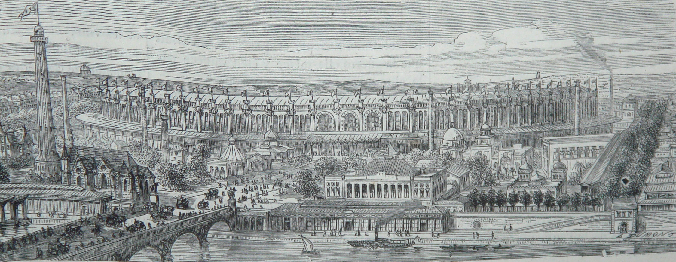 Paris World Fair 1867.